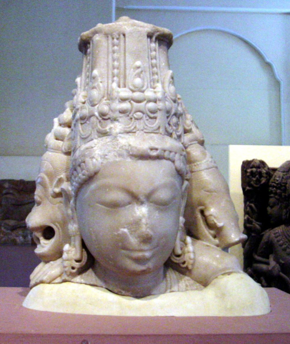 Vaikuntha Chaturmurti. Gujarat, 11th century Prince of Wales Museum, Bombay This beautiful sculpture combines a smiling, anthromorphic Vishnu (principal head) with lion and boar faces on the side and another face behind. Many writers interpret the lion and boar as avatars. However, according to Huntington (p. 367), these faces do not represent Narasimha and Varaha; instead, they represent cosmic emanations (vyuhas) of Vishnu. In the Pancharatra sect of Vishnu worship, the vyuhas represent various spiritual forms and powers of God, such as knowledge, courage, and power.